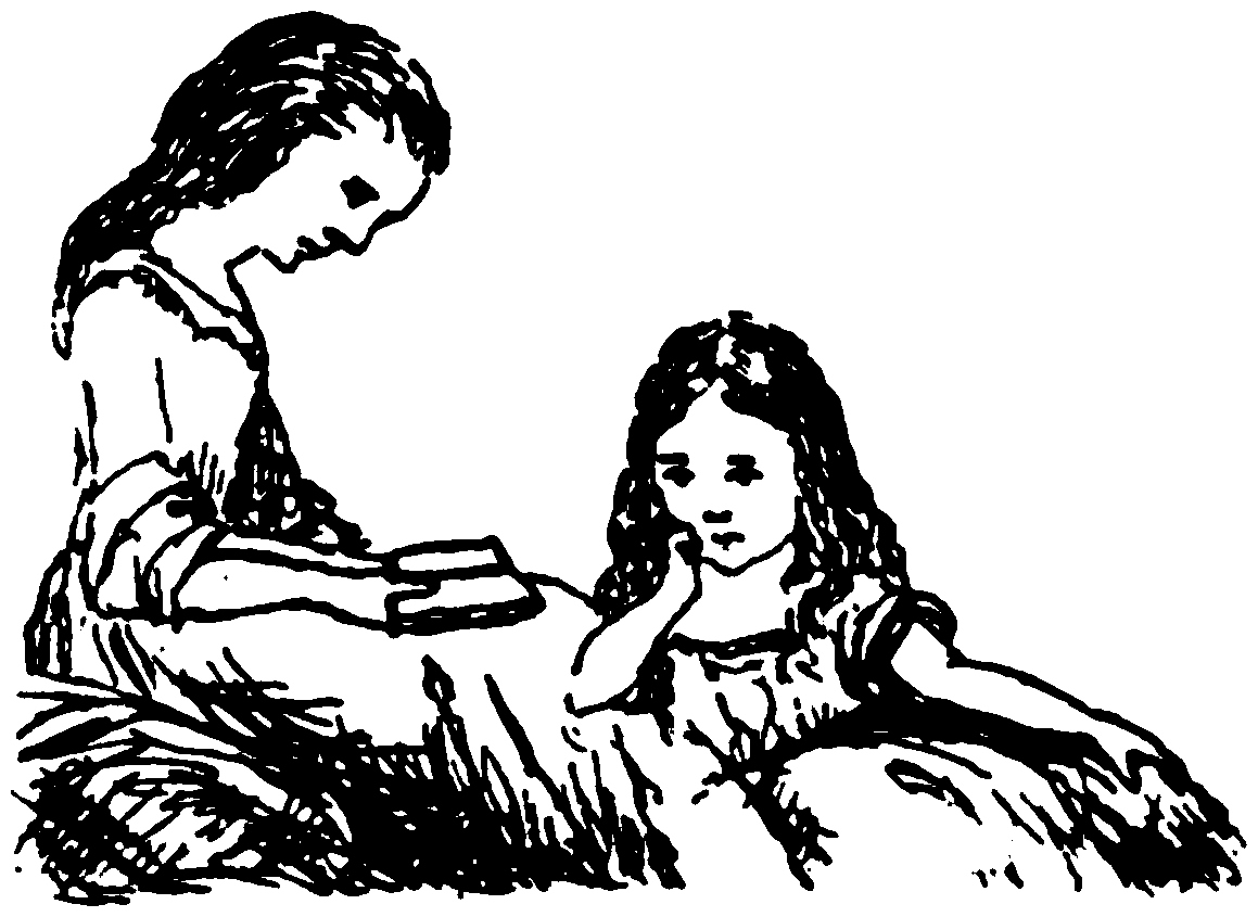 Illustration from page 1